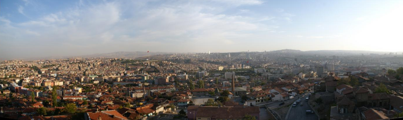 Panorama of the city of Ankara, taken from Ankara kalesi